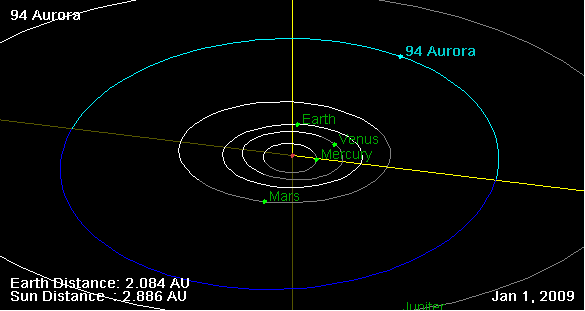 94 Aurora orbit, and his position on 01 Jan 2009 (NASA Orbit Viewer applet)